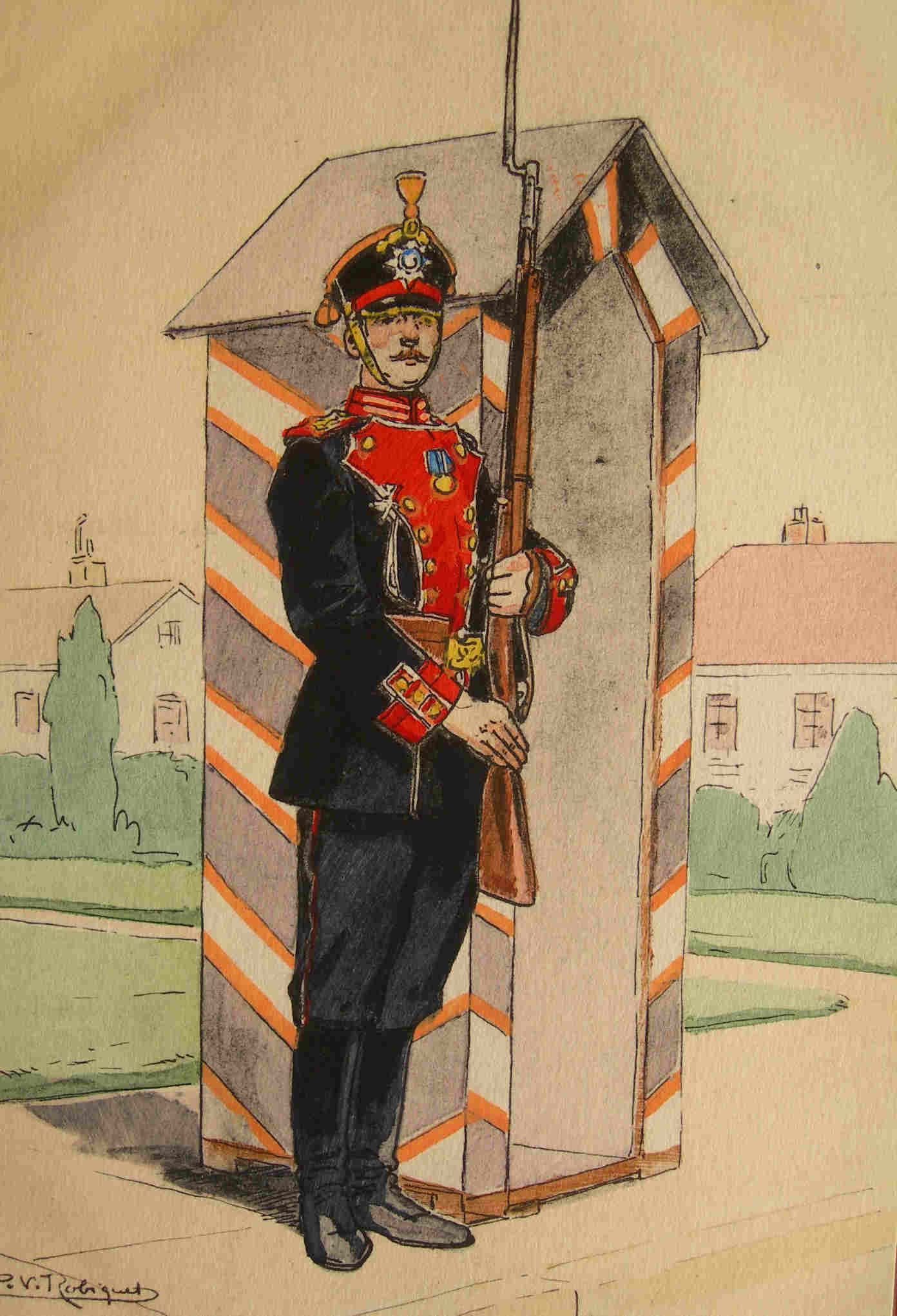 Uniform of Preobrazhensky Guard Regiment. 1914 Postcard